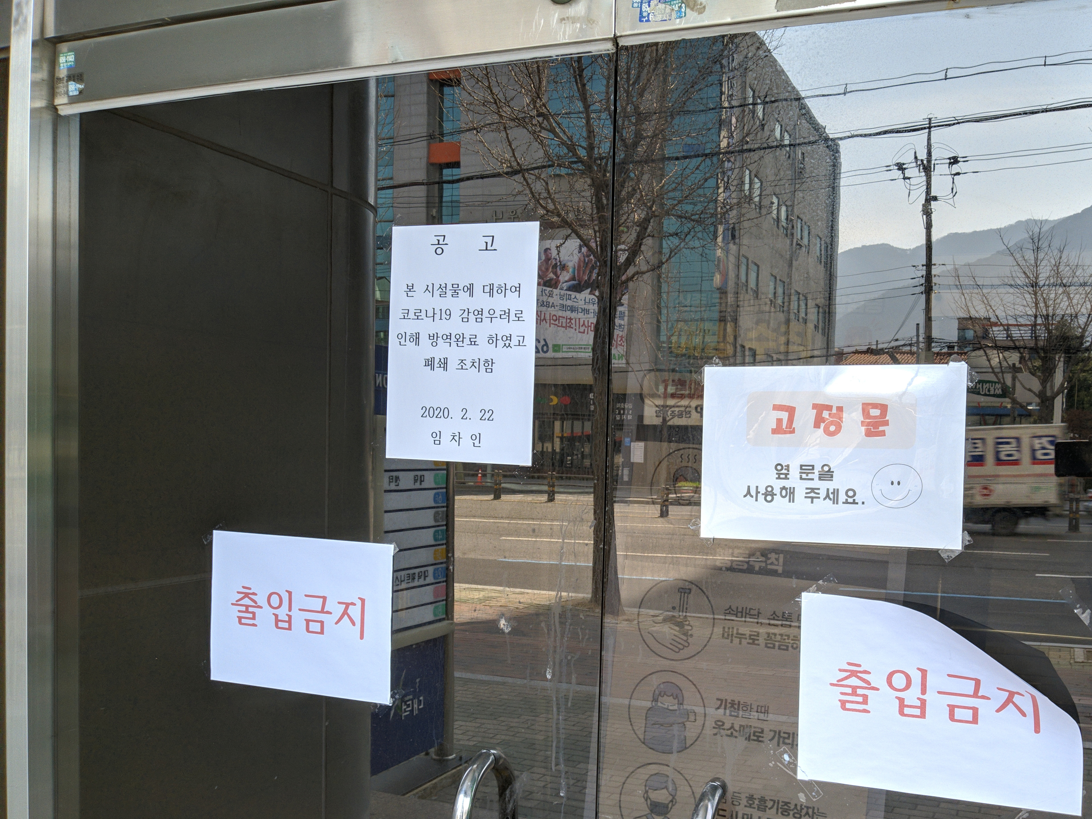 Shincheonji Daegu Church